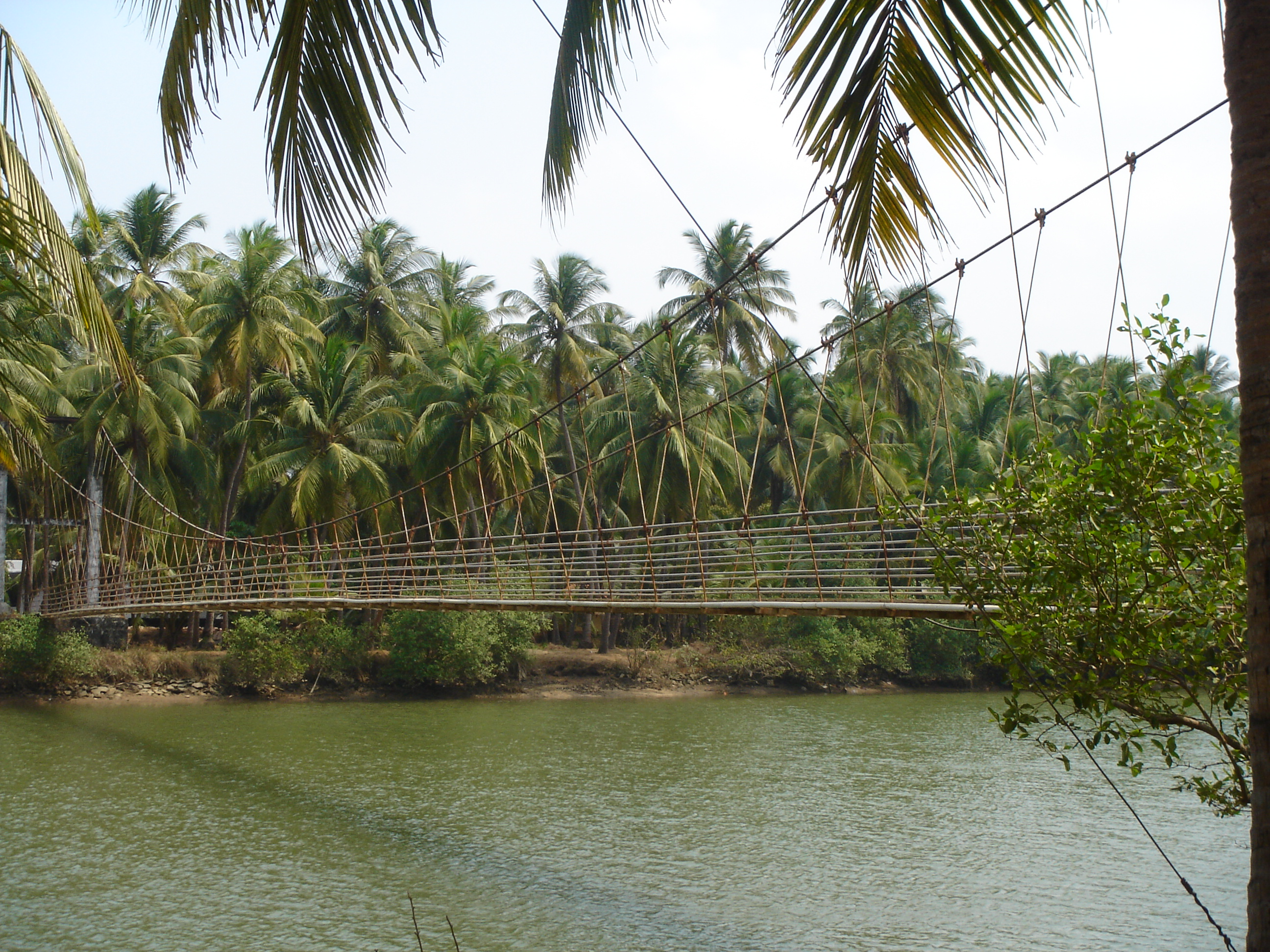 Thimmankudru hanging bridge at Tonse